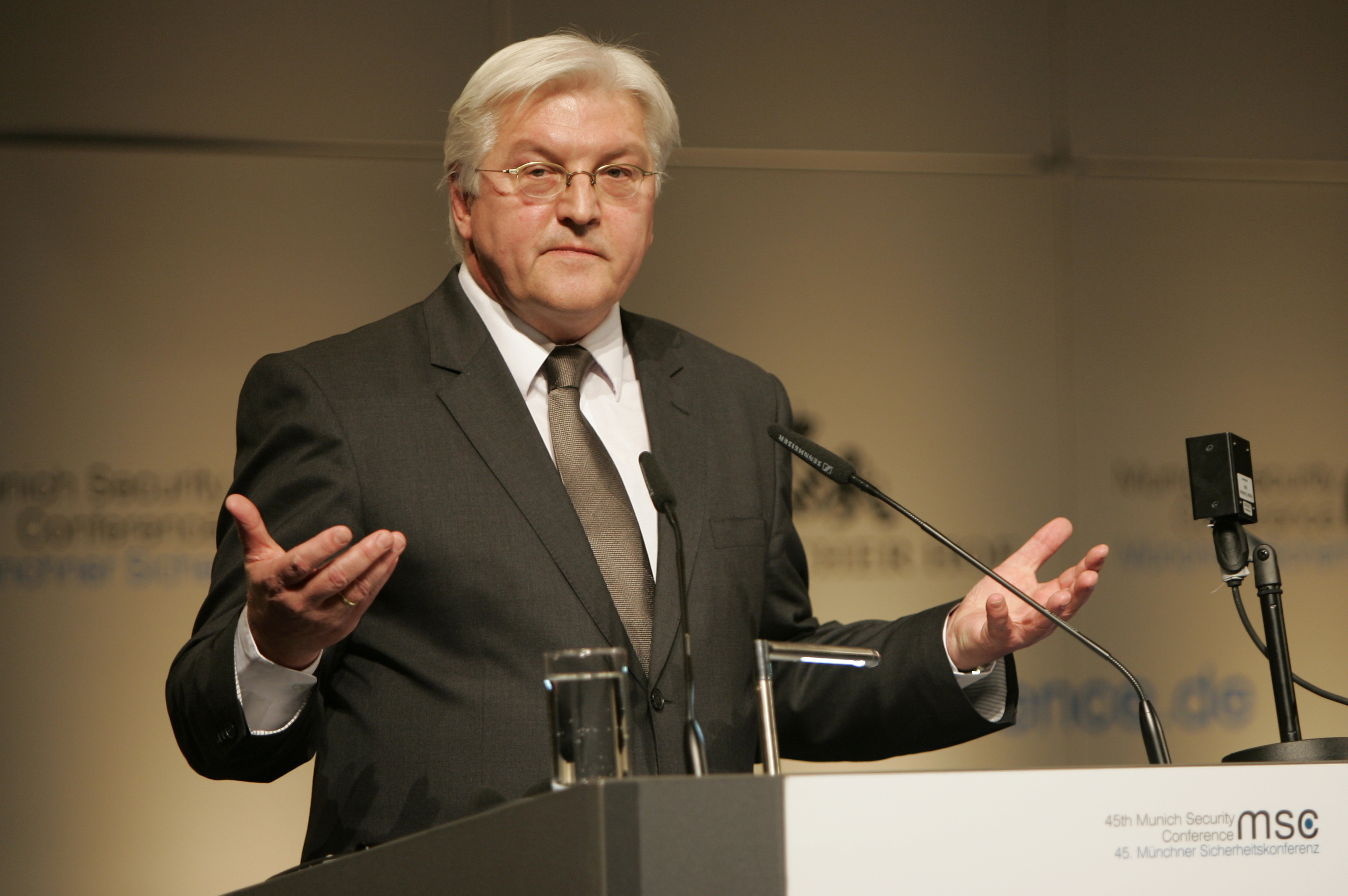 45th Munich Security Conference 2009: Dr. Frank-Walter Steinmeier, Federal Minister of Foreign Affairs, Germany.